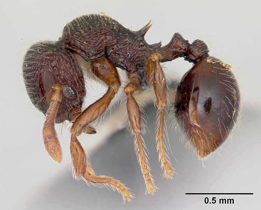 Profile view of ant Lachnomyrmex scrobiculatus specimen casent0103243.